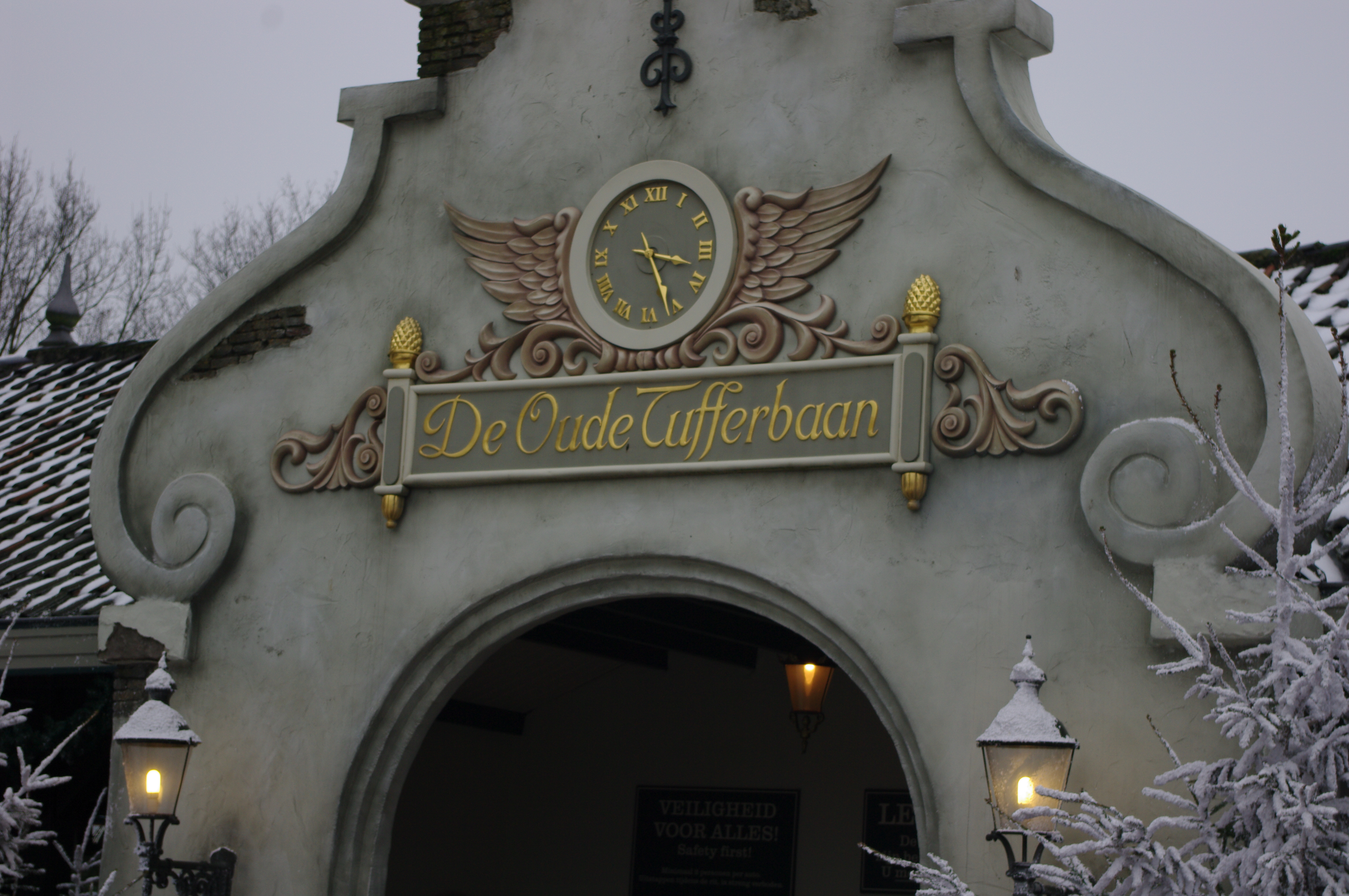 The Tin Lizzies ride in the dutch amusementpark Efteling